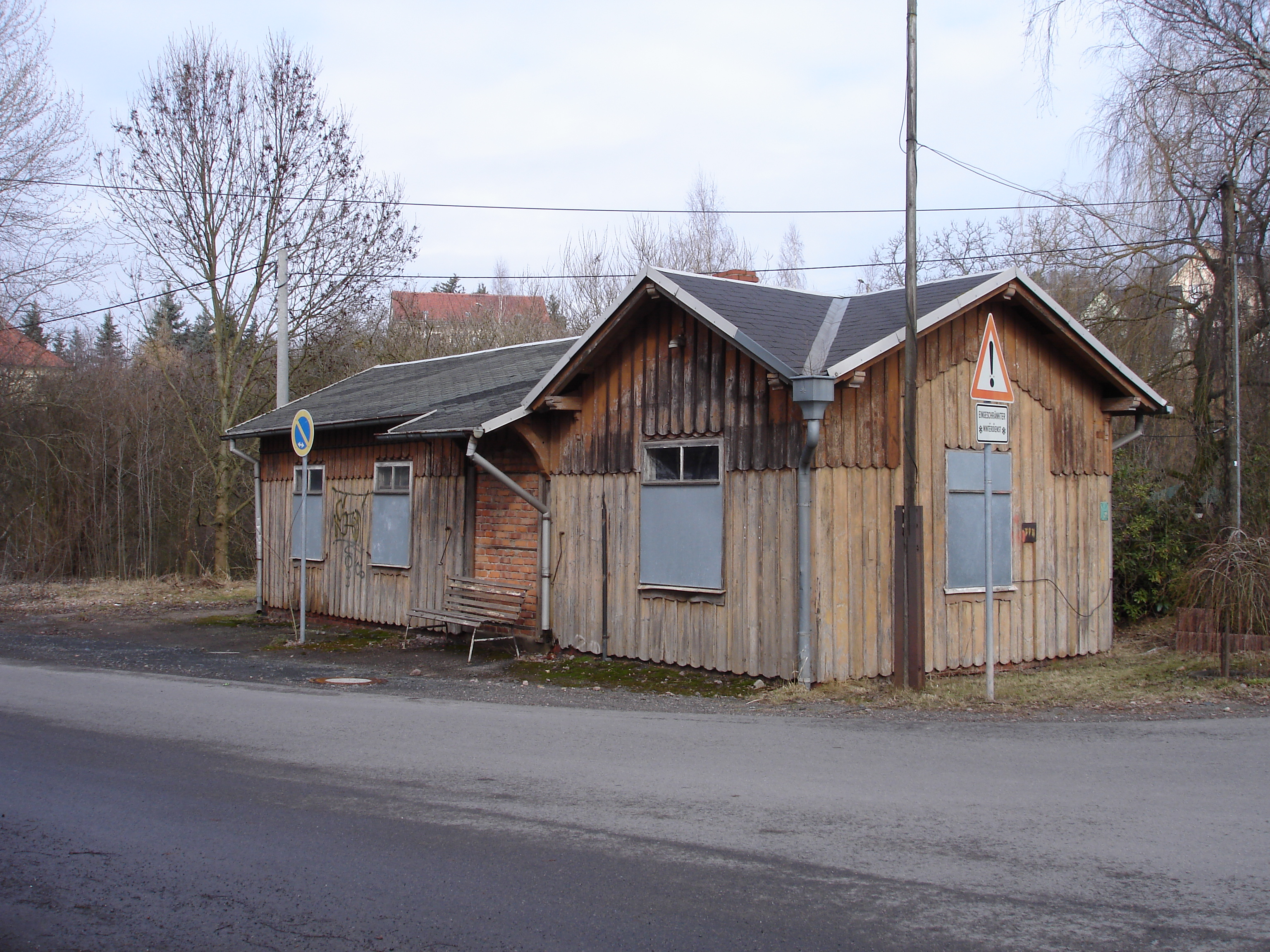 former station Hänichen-Goldene Höhe, Windbergbahn, Germany